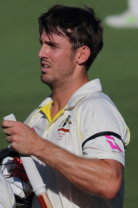 Mitchell Marsh during The Ashes - 5th test - 3rd Day, 2018-01-06